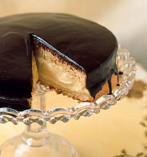 Last course: Boston Cream Pie served with fresh raspberries